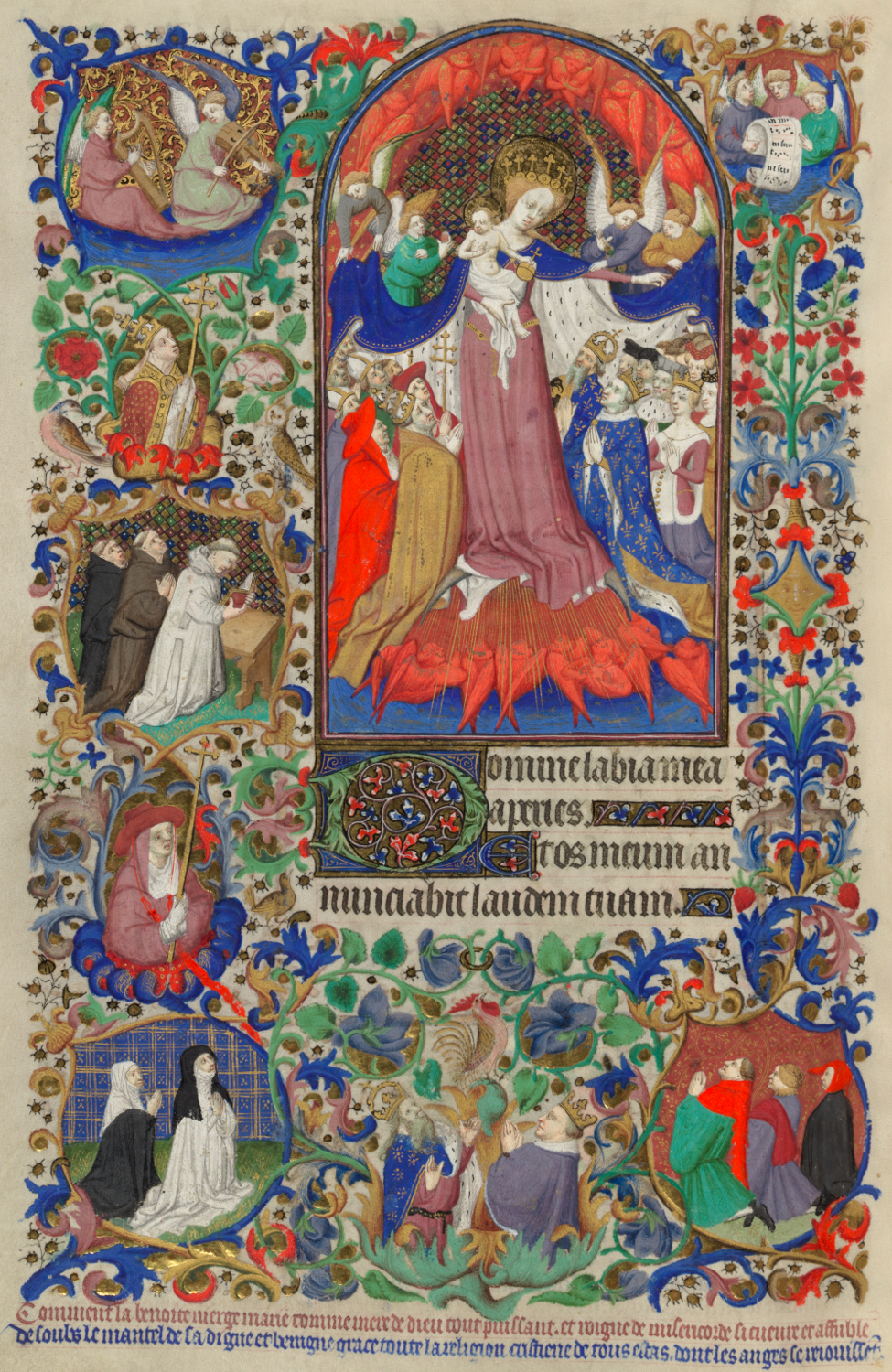 Miniature of the Virgin Mary as the Mater Misericordiae; from BL Add MS 18850, f. 150v (the "Bedford Hours"). Held and digitised by the British Library.